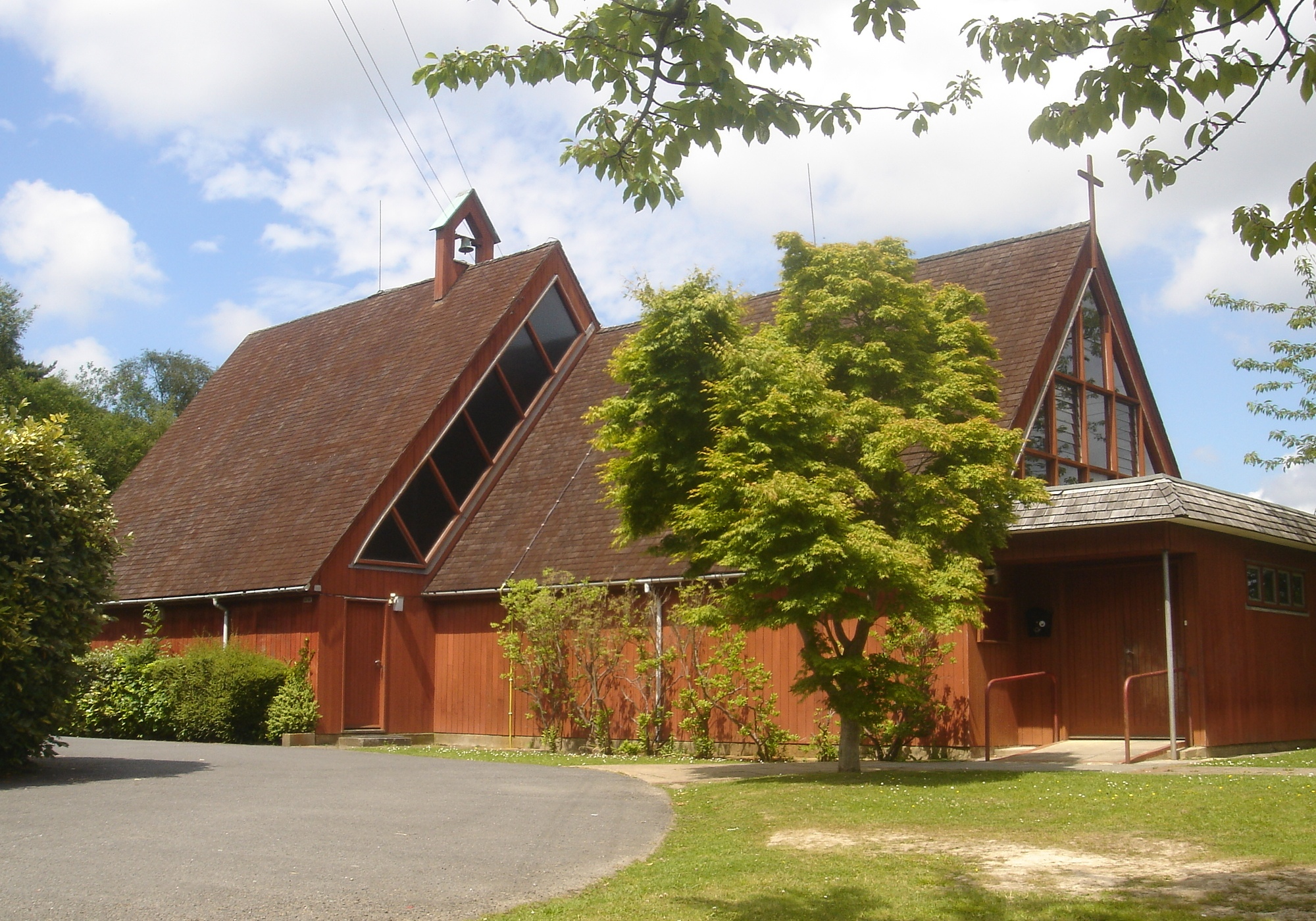 Former parish church of the Good Shepherd, Gravelye Lane, Franklands Village, Haywards Heath, West Sussex, England. Built in the mid-1960s to serve the Franklands Village housing estate in the southeast of the town. Closed in 2003.